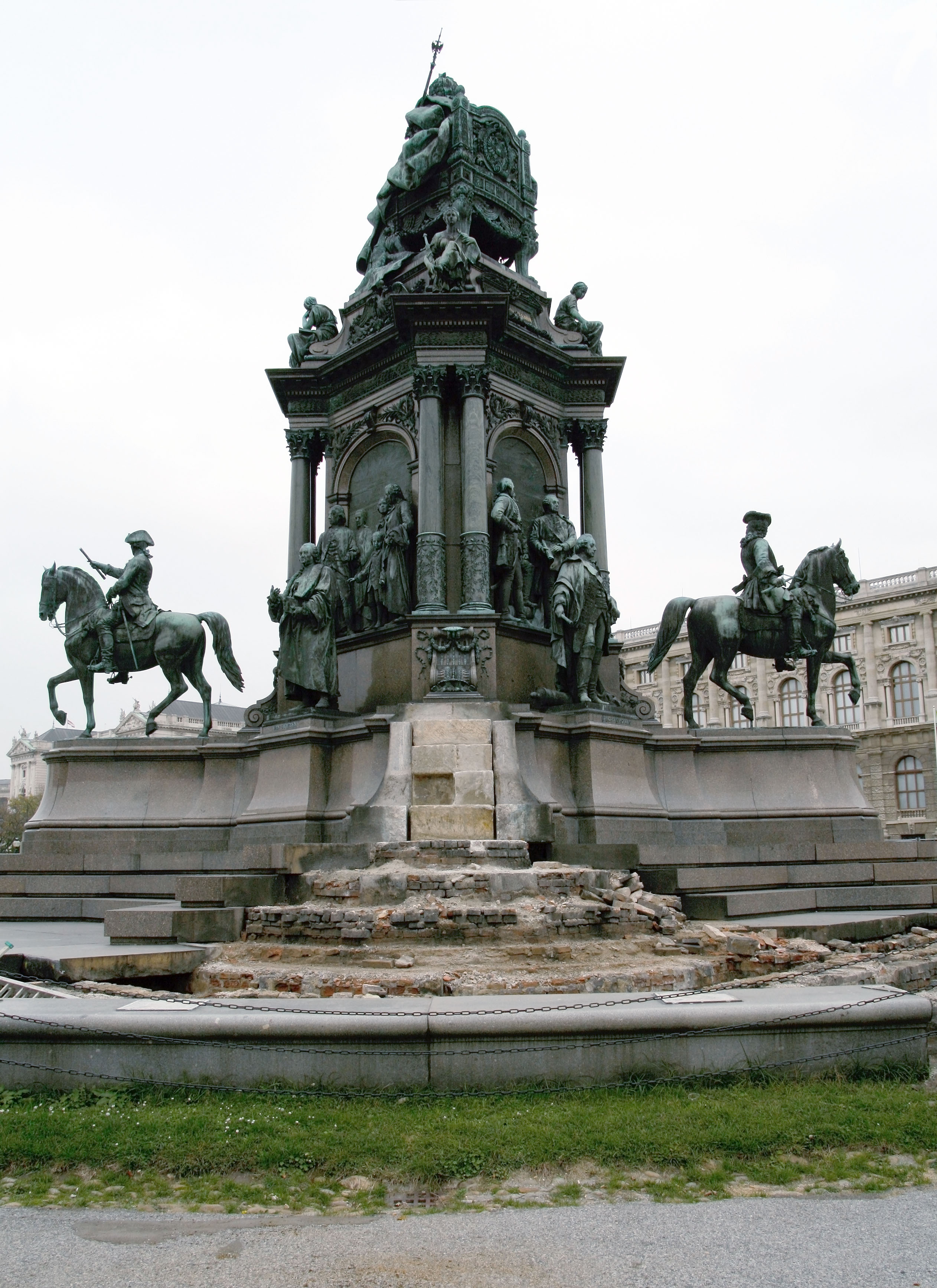 Memorial to Empress Maria Theresia in Vienna during renovation.